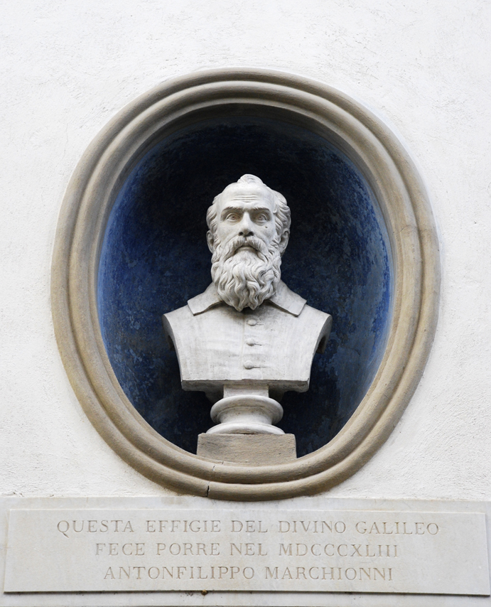 Villa Il Gioiello (the last home of Galileo Galilei), Florence, Italy. Facade. The Bust of Galileo (1843).